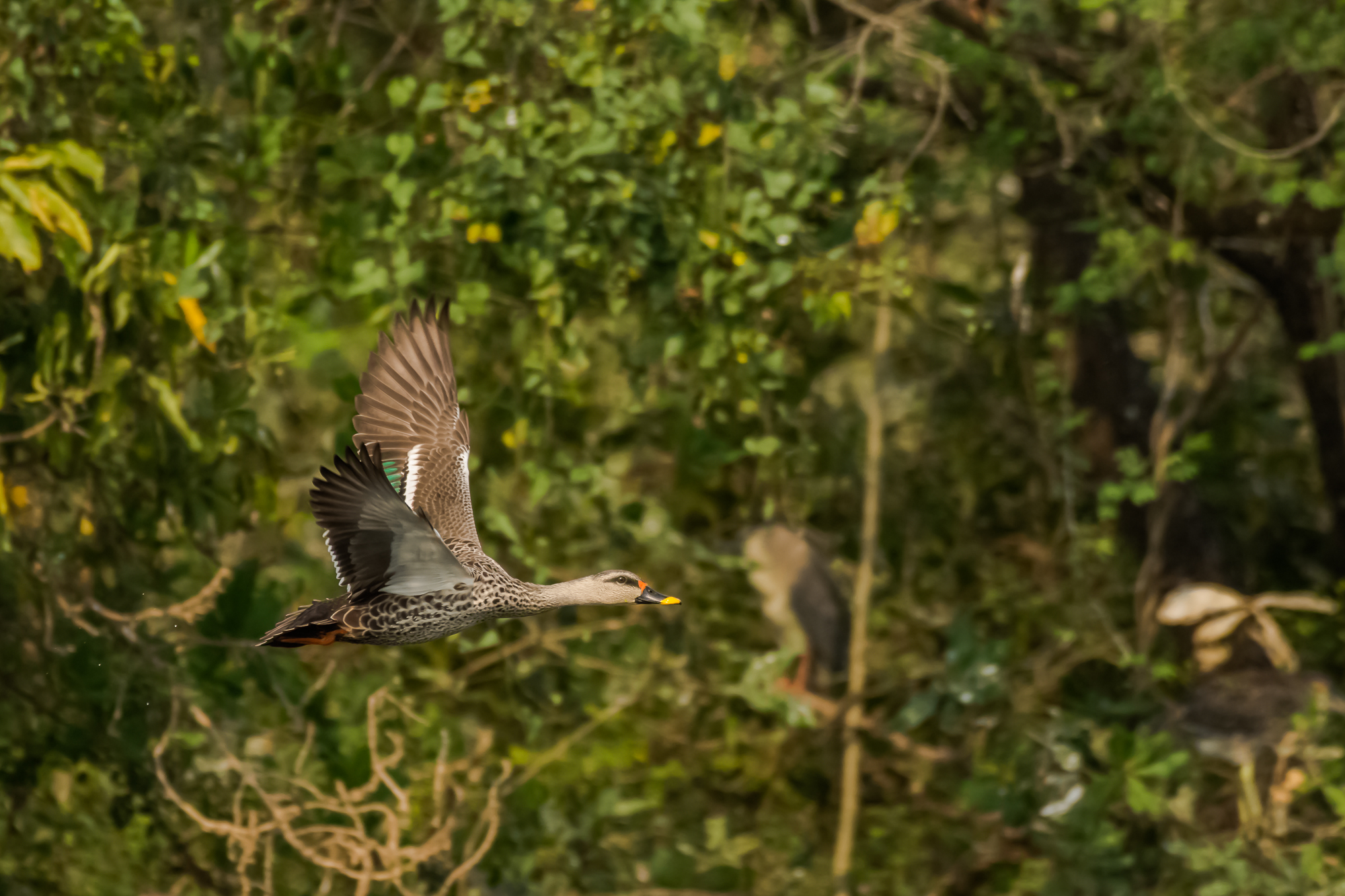 spotbilled duck in flight